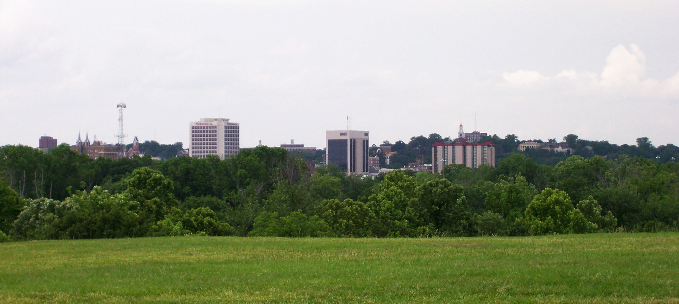 Downtown Macon, Georgia from the Ocmulgee National Monument.